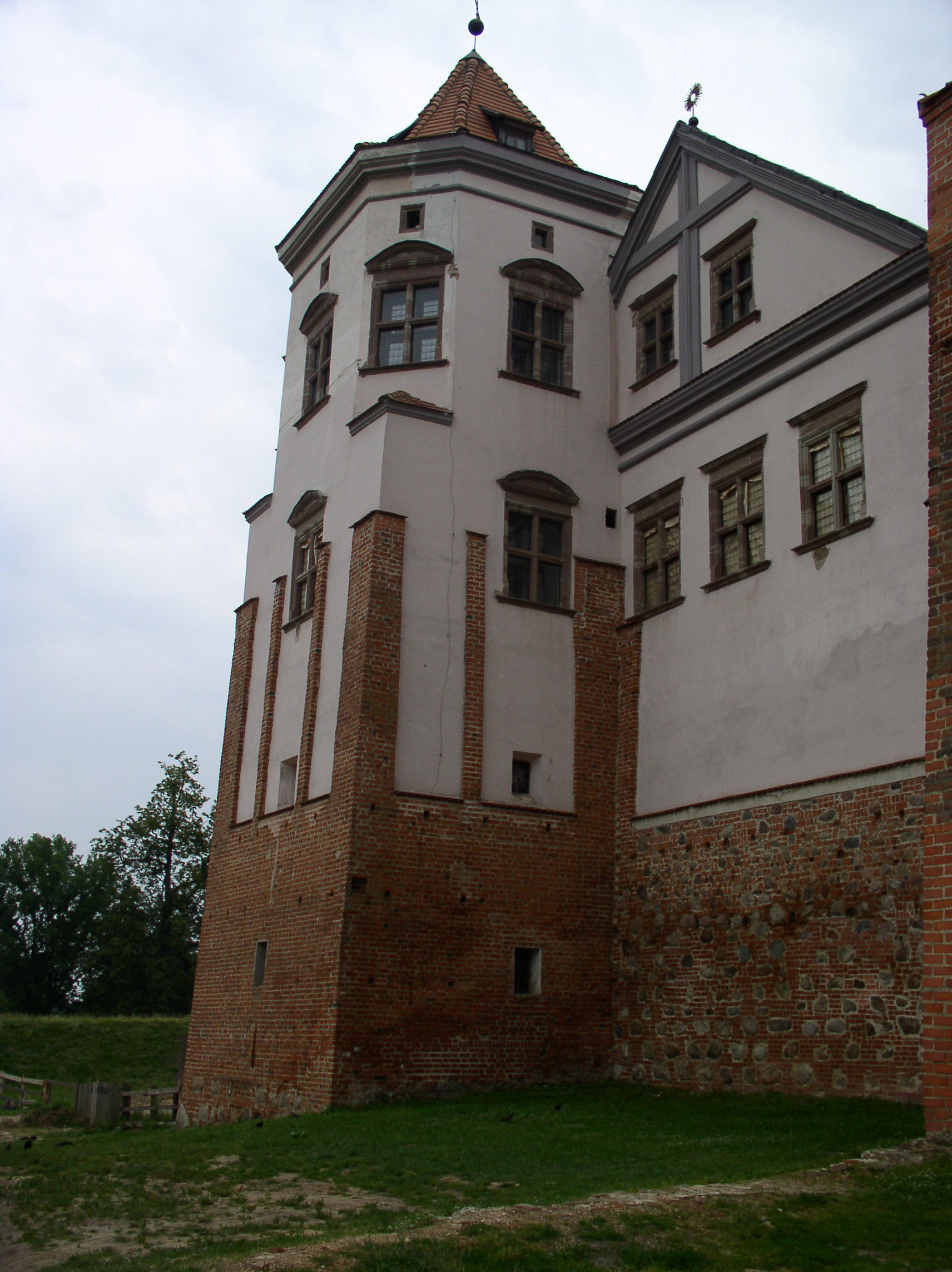 Castle, Mir, Belarus.